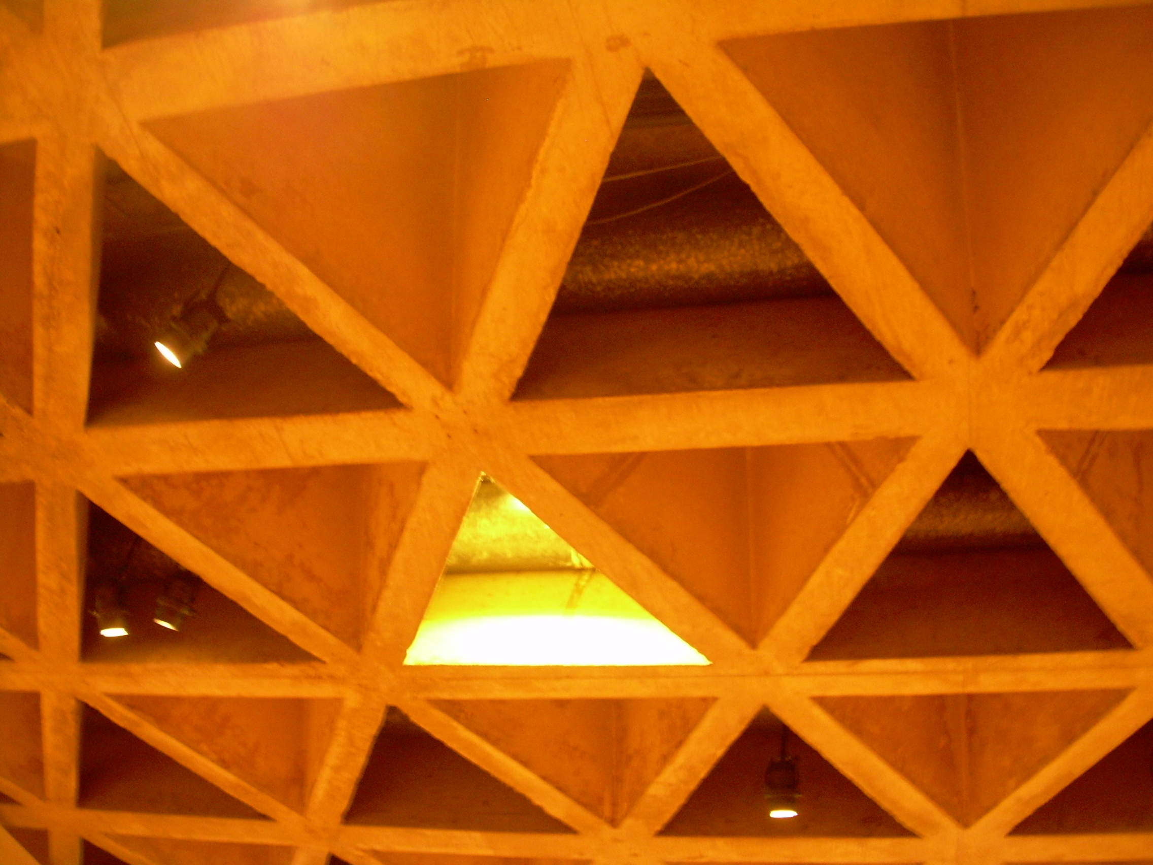 A picture of the famous triangular ceiling in Louis Kahn's Yale University Art Gallery